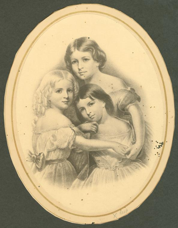 Portrait of the three daughters of American poet Henry Wadsworth Longfellow. The original still hangs in the dining room of Longfellow's home in Cambridge, MA. The image was used during the children's lifetimes to illustrate the poem "The Children's Hour," which refers to "grave Alice" (top), "laughing Allegra" (right), and "Edith with golden hair" (left).